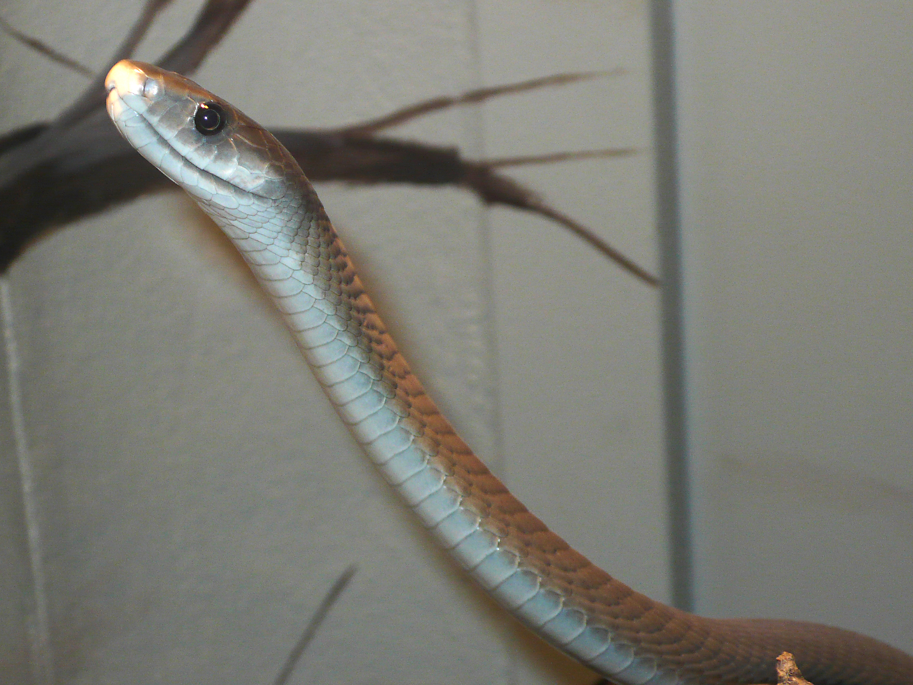 Black mamba (Dendroaspis polylepis)